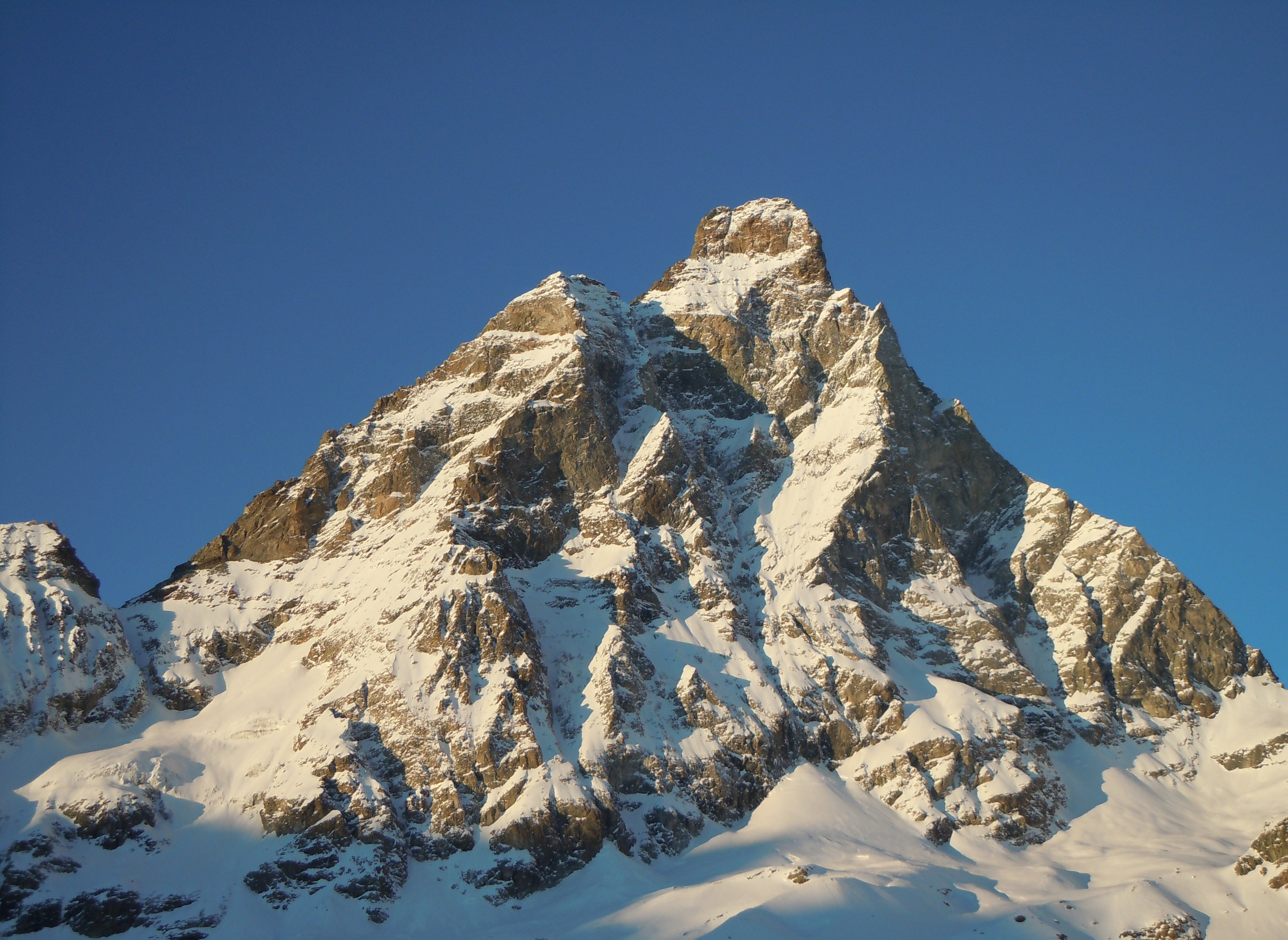 Matterhorn taken by Breuil-Cervinia (ITA - AO)